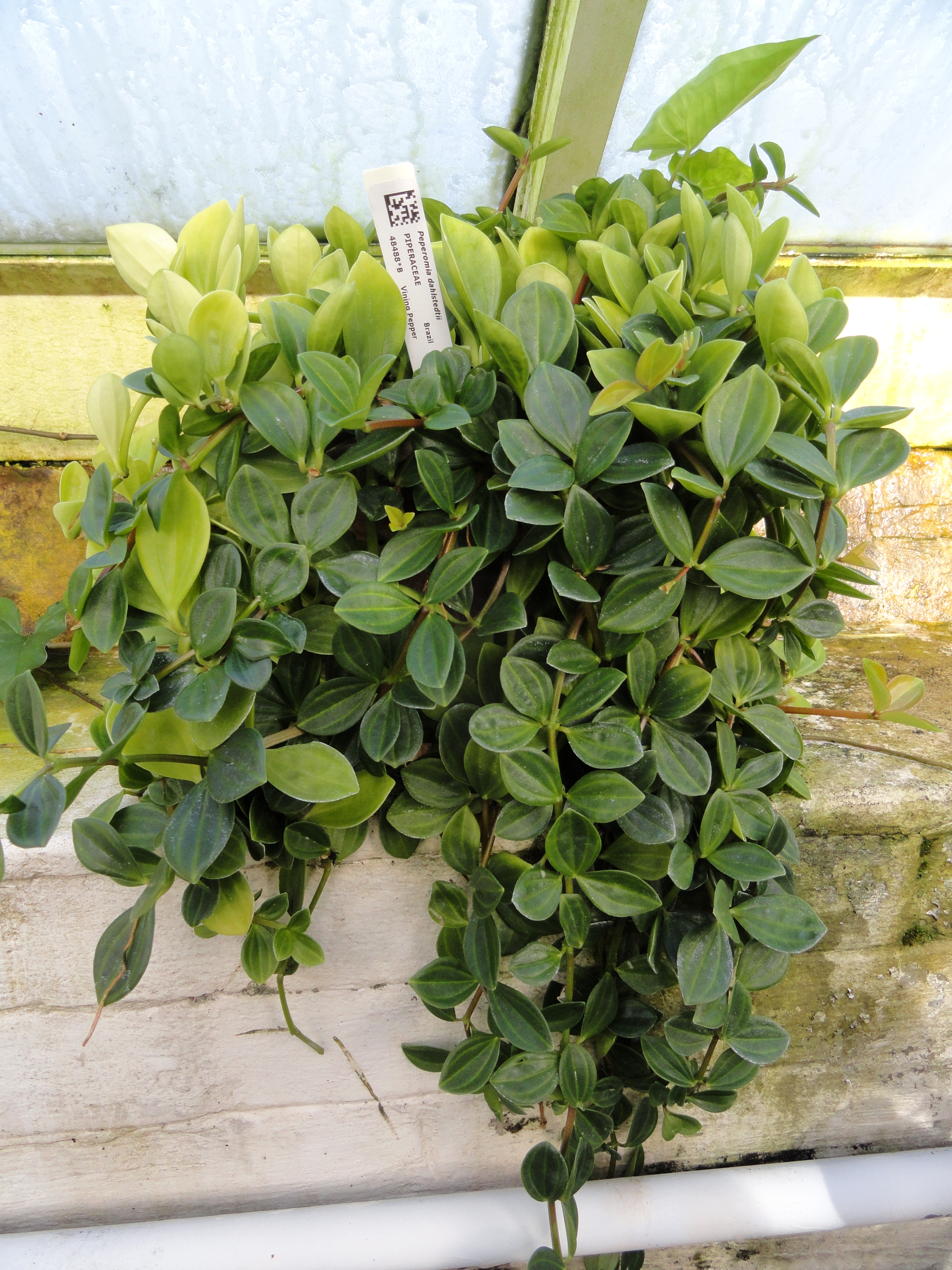 Botanical specimen in the Lyman Plant House, Smith College, Northampton, Massachusetts, USA.